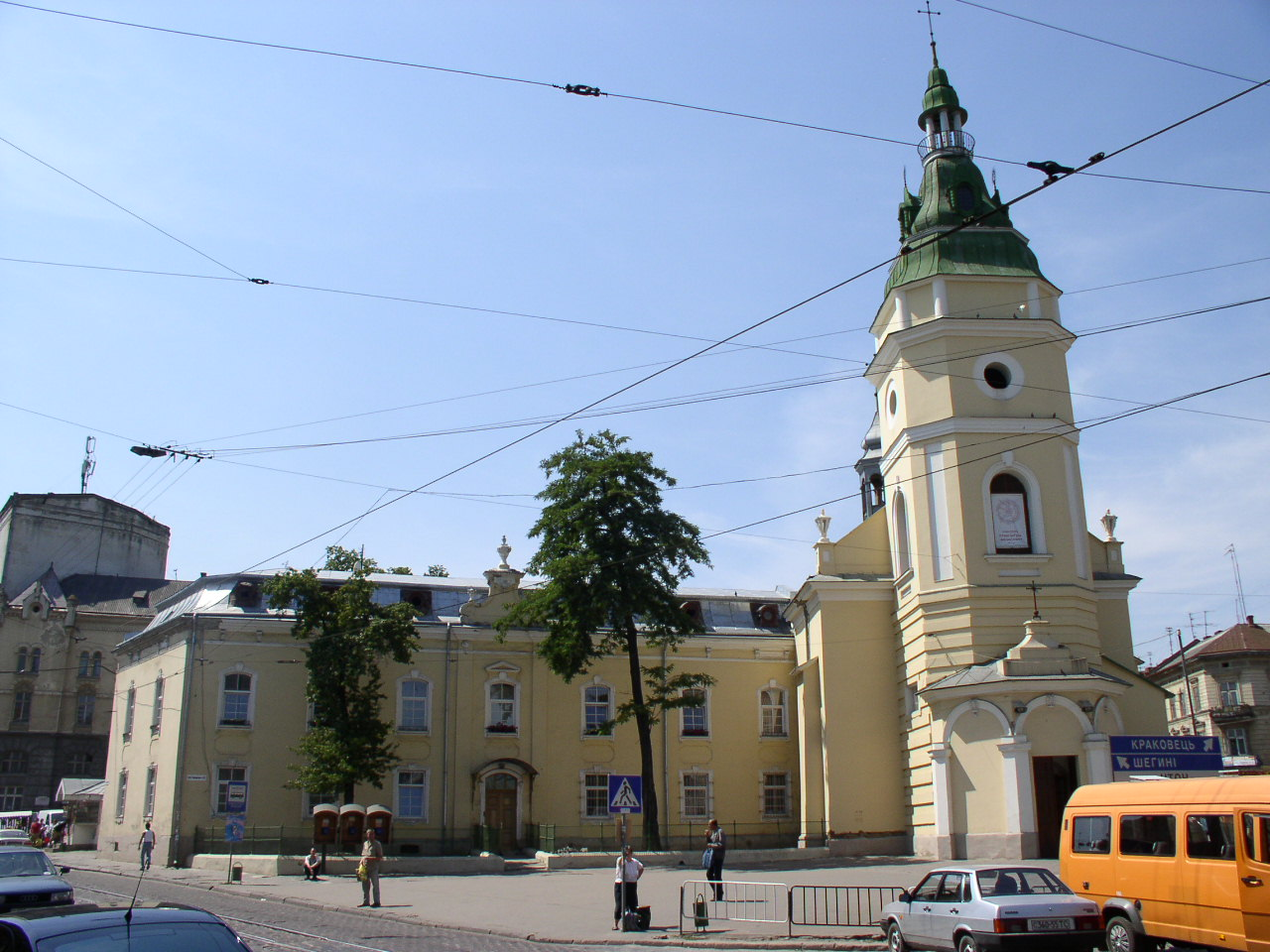 Church of Saint Anne. Lviv, Ukraine.